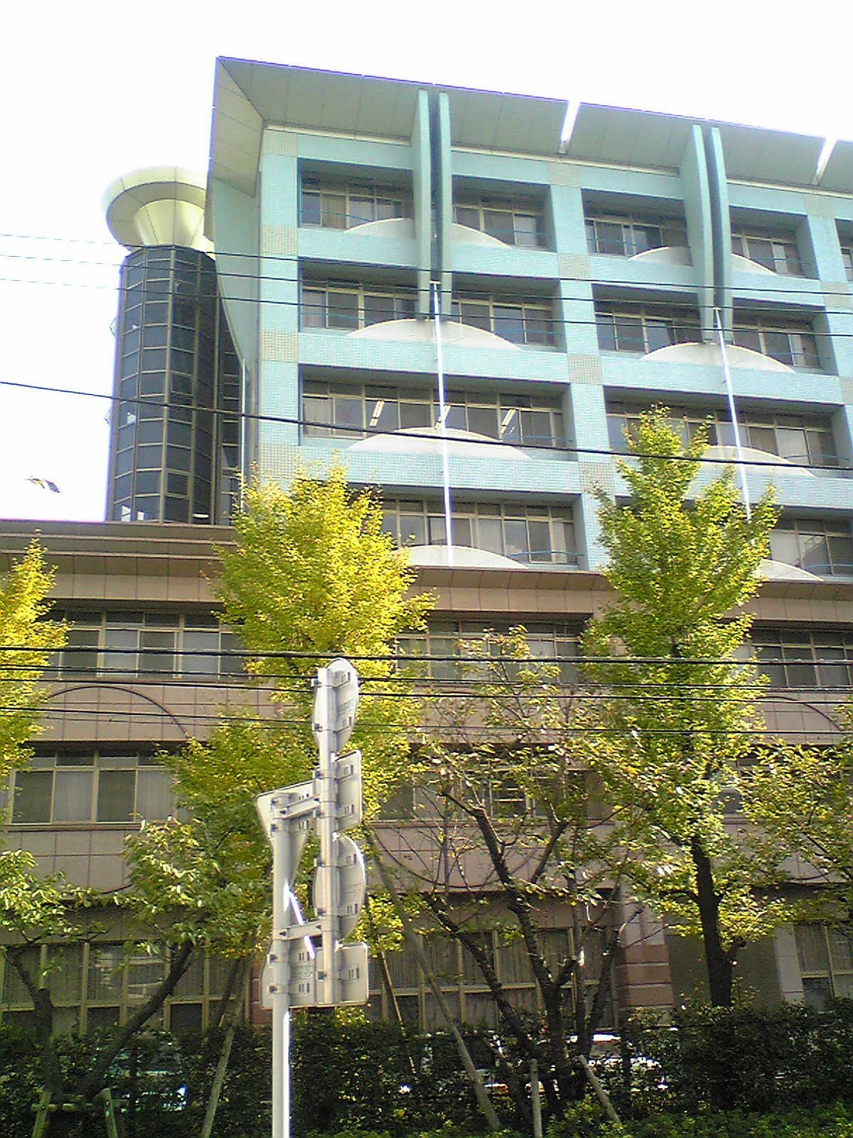 Photograph of Tokyo Metropolitan College of Industrial Technology Shinagawa-Campus.